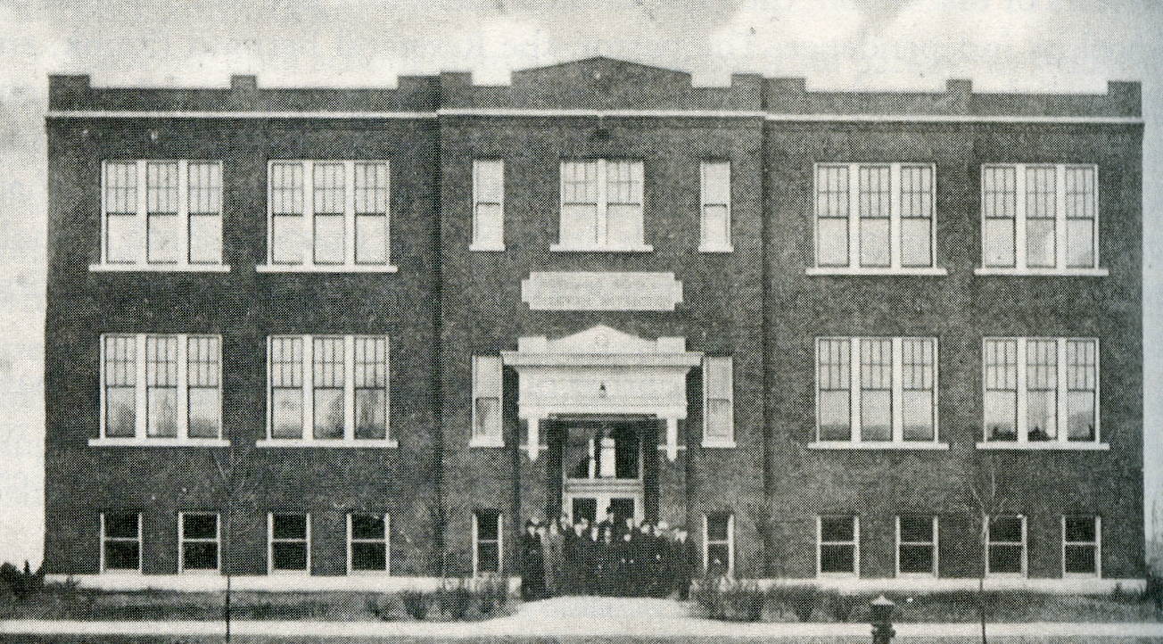 The main building of Roseland Christian School's 104th Street building in before the addition of 1929.